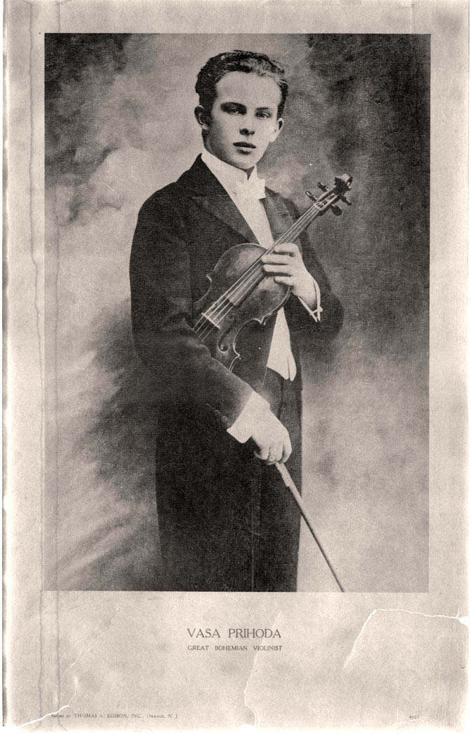 Printed below image: "VASA PRIHODA, GREAT BOHEMIAN VIOLINIST. Issued by THOMAS A. EDISON, INC., Orange, N.J."